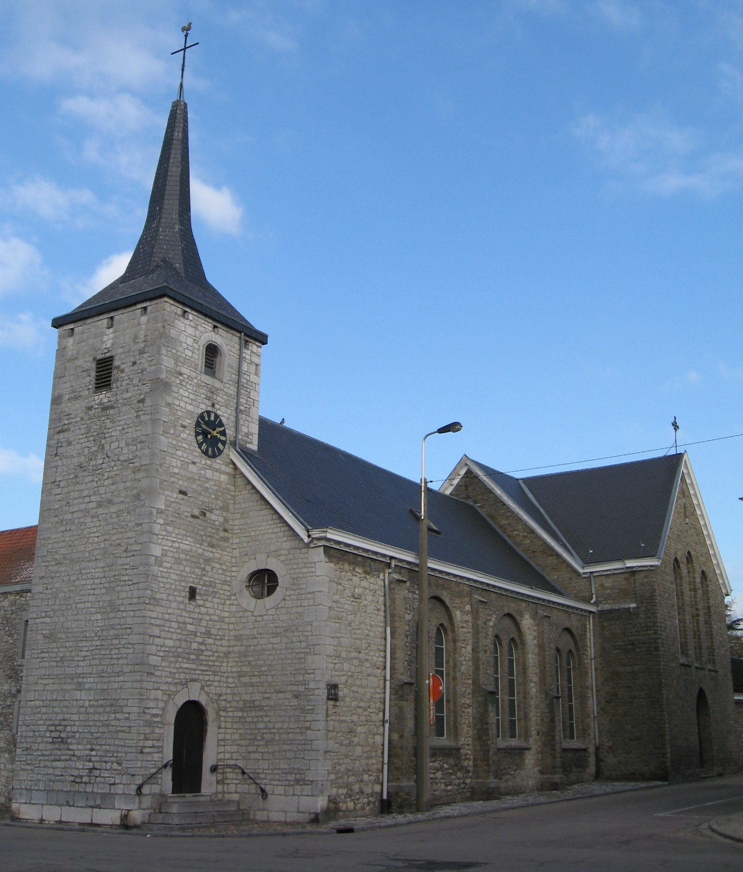 Church of Saint Hubert in Wegnez, Pepinster, Liège, Belgium